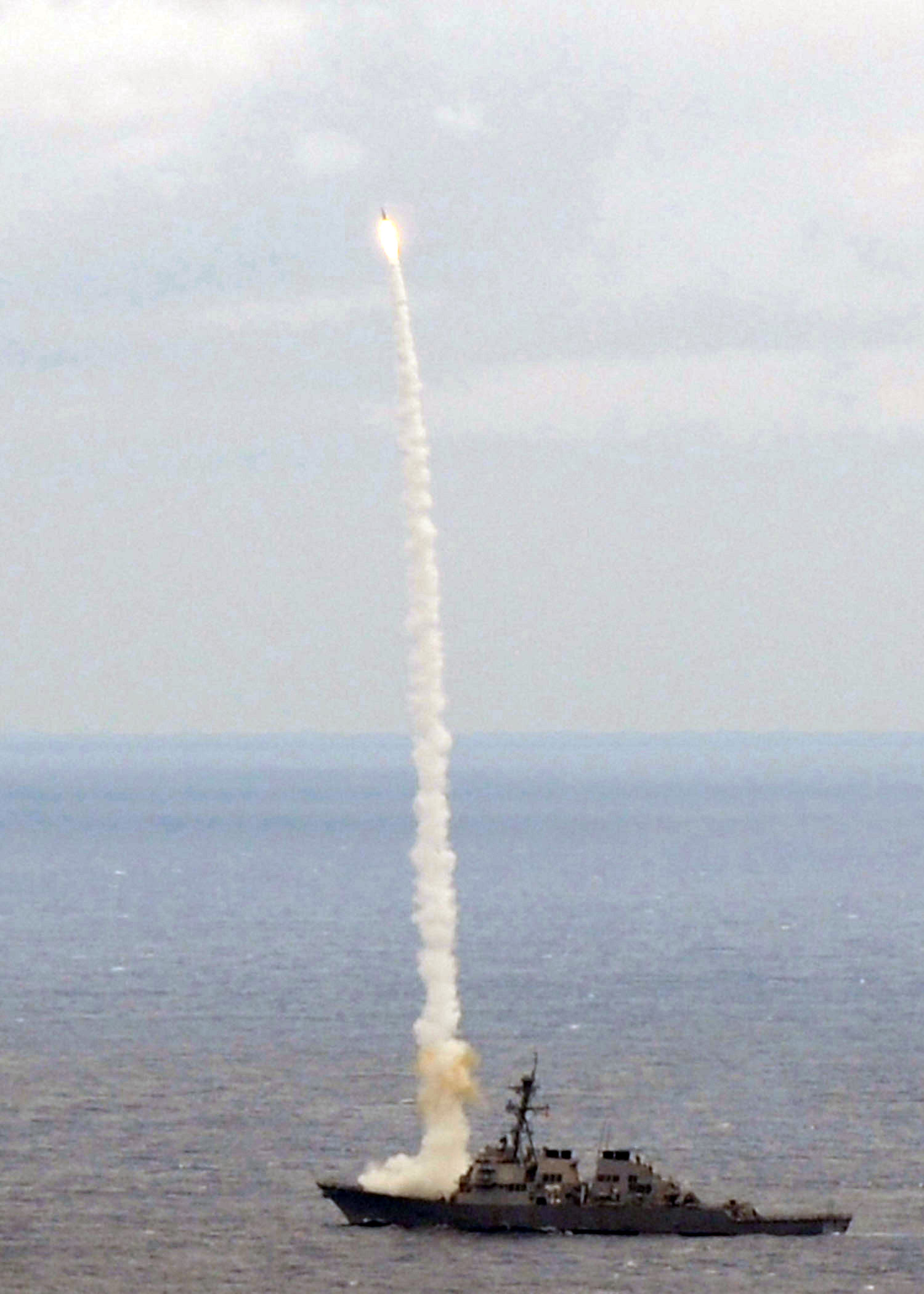 PACIFIC OCEAN (April 13, 2010) The Arleigh Burke-class guided-missile destroyer USS Fitzgerald (DDG 62) launches a standard missile (SM-2) during a missile exercise near Okinawa. The exercise was one of several training scenarios conducted during Multi-Sail, a semi-annual exercise that allows ships assigned to Destroyer Squadron (DESRON) 15 to improve their combined combat readiness. (U.S. Navy photo by Mass Communication Specialist 1st Class Brock A. Taylor/Released)